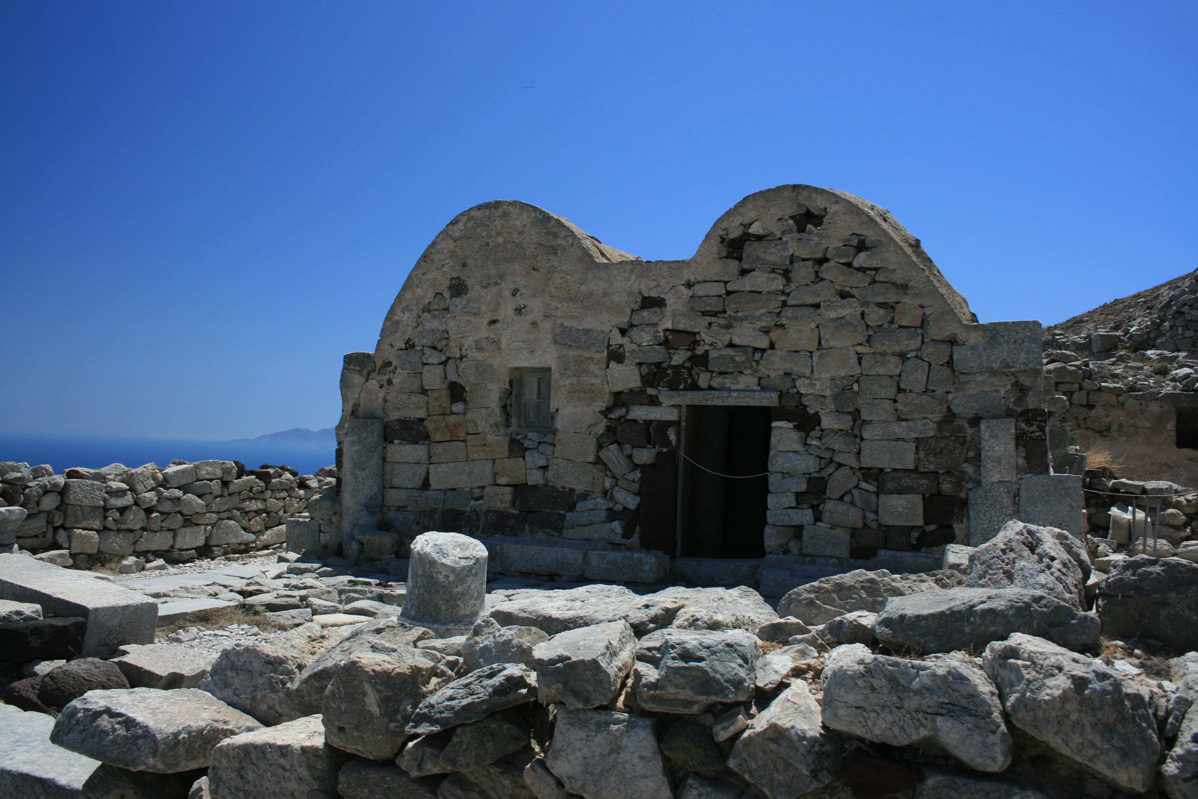 Ayos Stefanos church, Ancient Thira